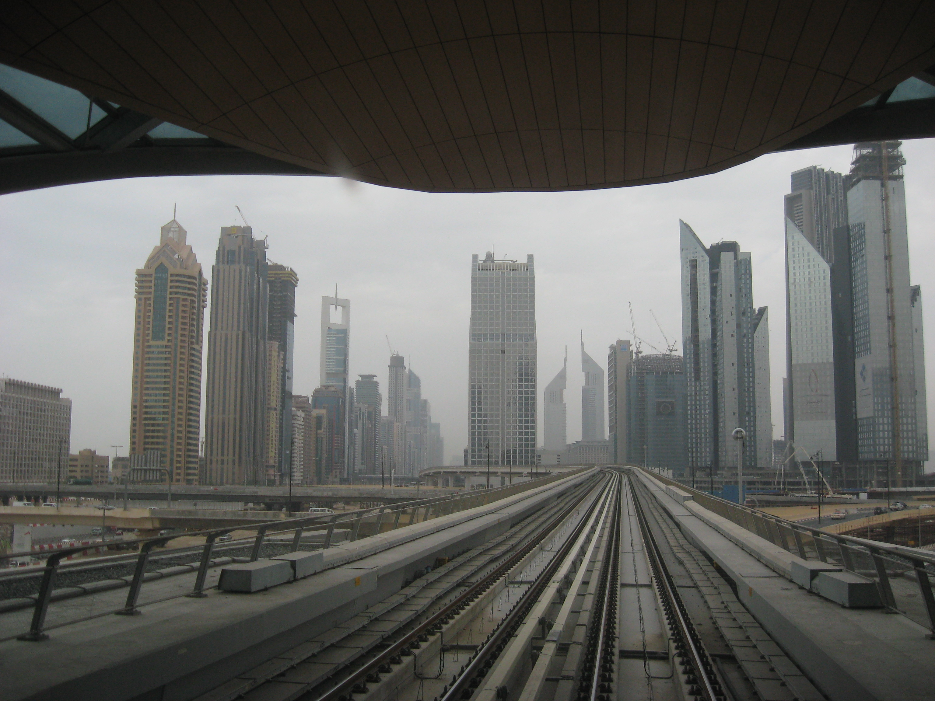 Dubai Metro, red line, view northward from station stop